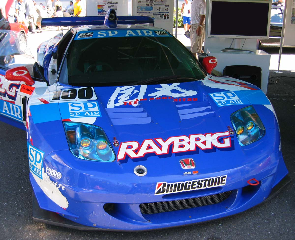 "Raybrig"-Honda NSX 2002 from JGTC-Class GT500